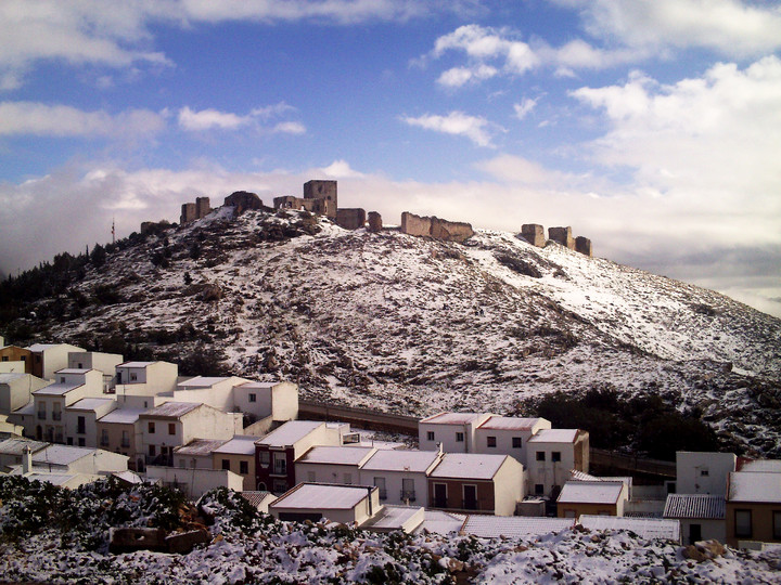 Teba Nevada 2013